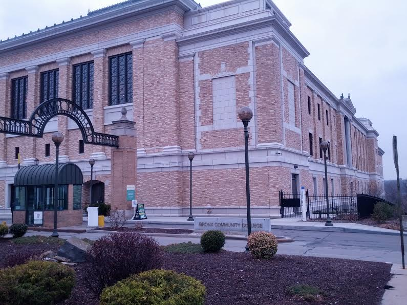 Backside view of BCC library